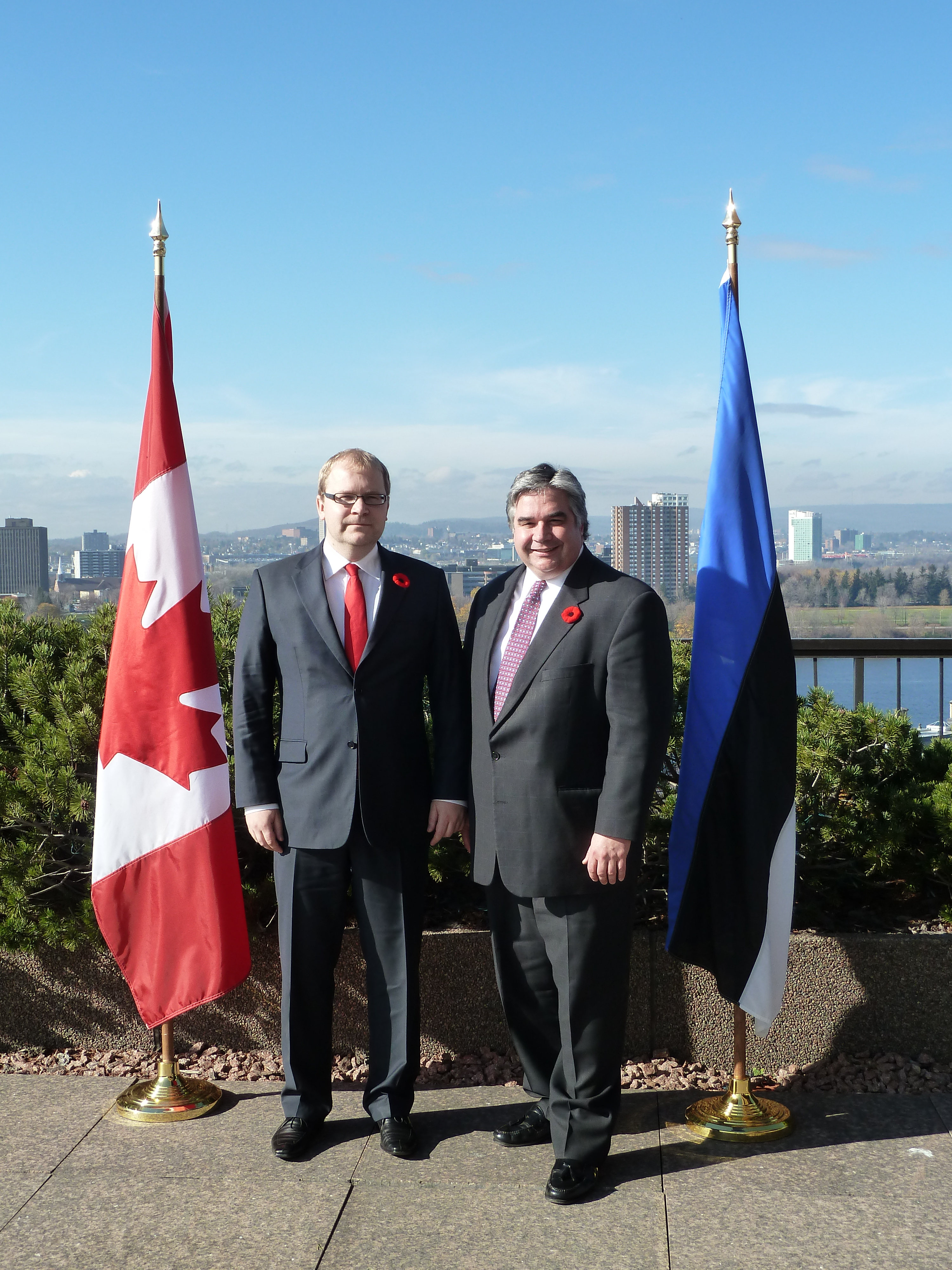 FM Urmas Paet with Canadian Minister of International Trade Peter Van Loan